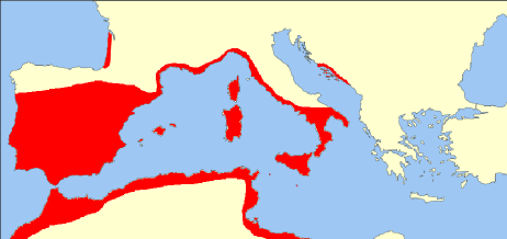 Natural distribution of Quercus suber